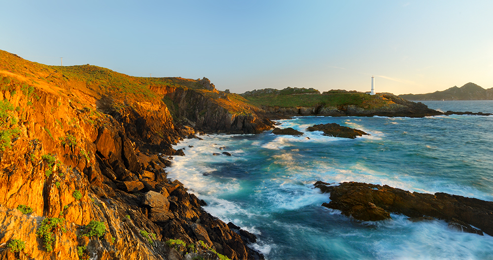 Lighthouse @ Cabo do Home - oMorrazo, Galicia ( Spain, 2008 ) Natural Sun Light NOT HDR filter ND8 hoya